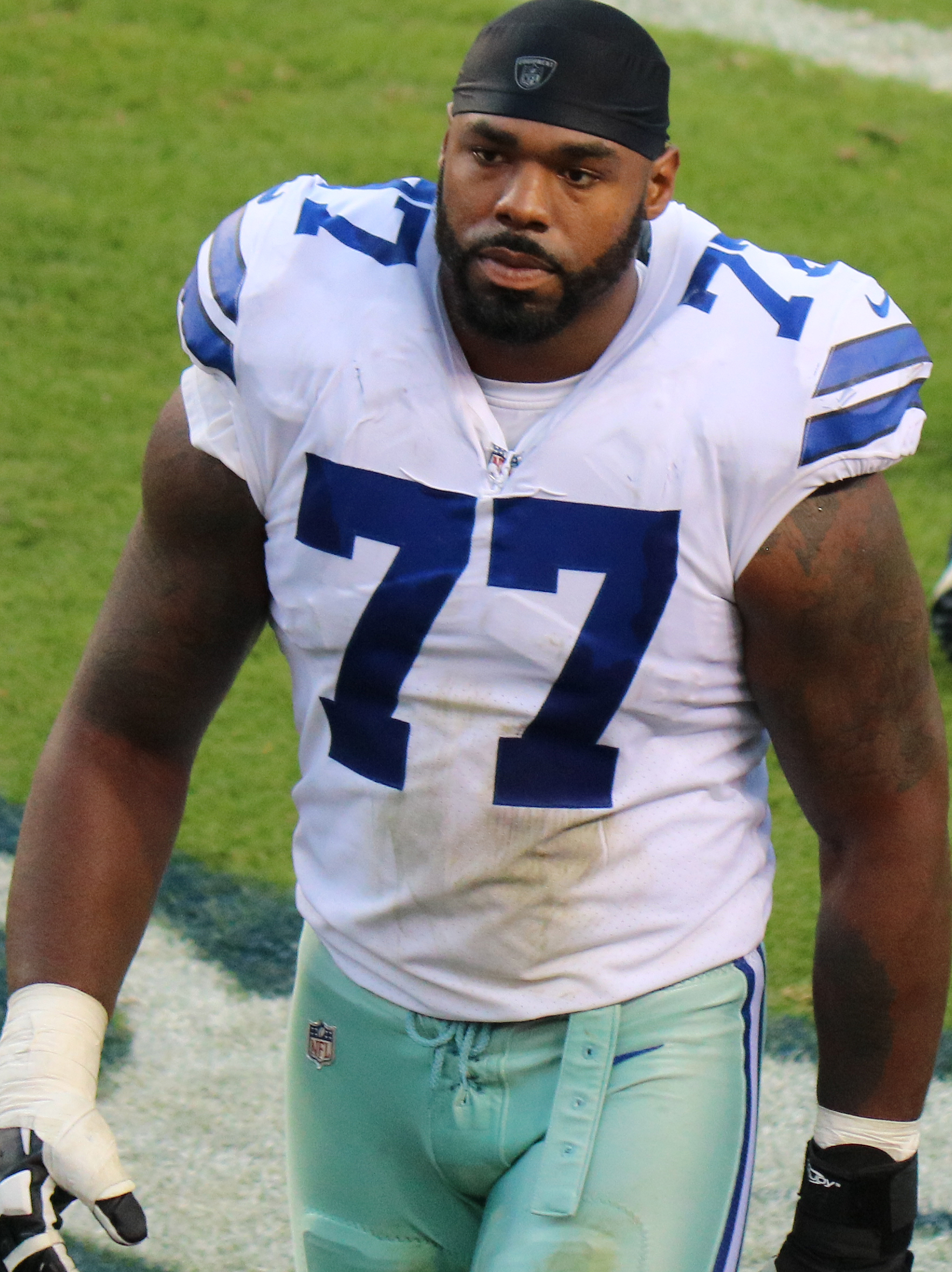 Tyron Smith, a player on the National Football League.